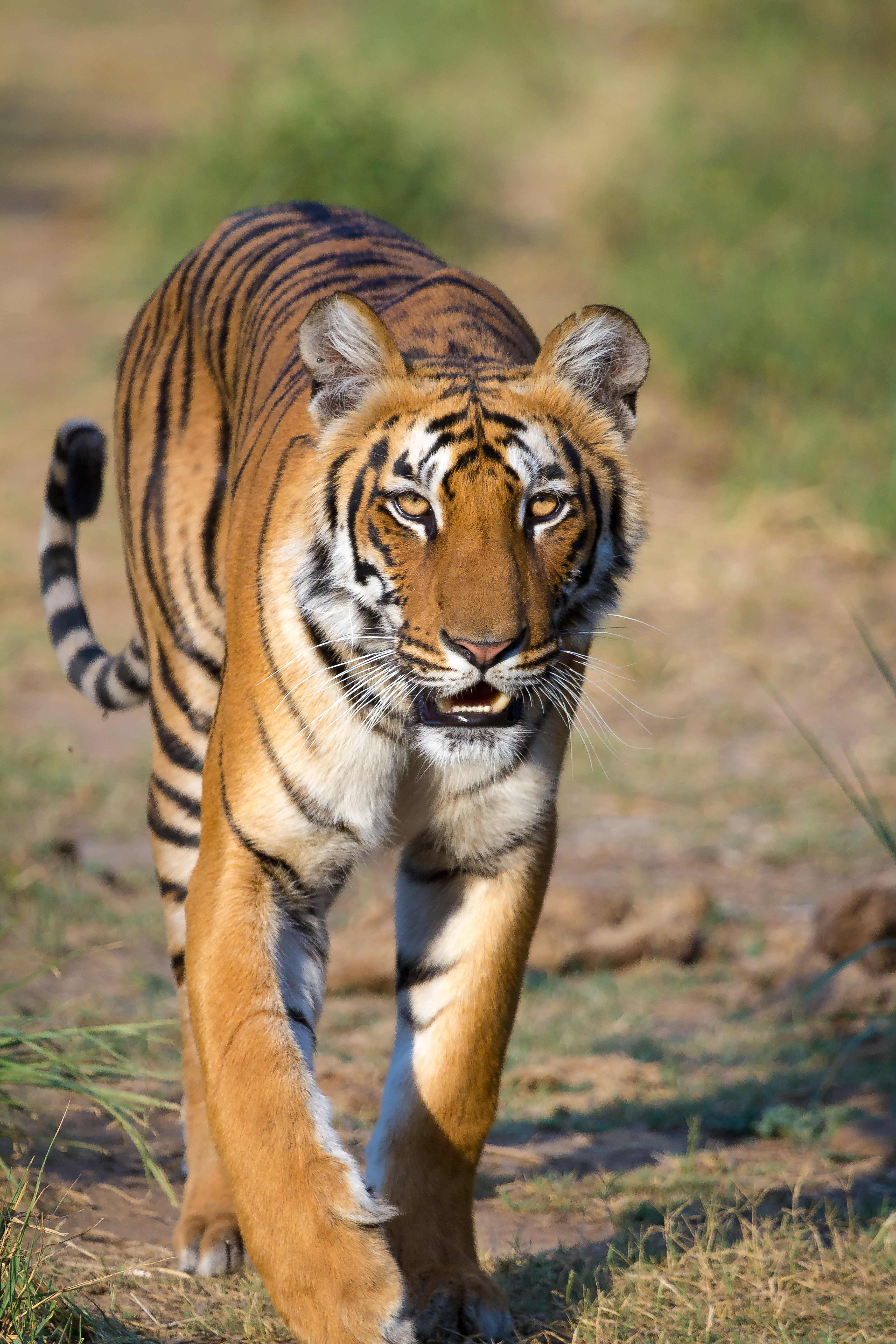 A young adult Bengal Tiger (Subspecies:Panthera tigris tigris) in the oldest national park in India, Jim Corbett National Park which was established in 1936 as Hailey National Park to protect the endangered Bengal tiger.[1] Bengal Tigers' population has been estimated at 1,706–1,909 in India.[2]